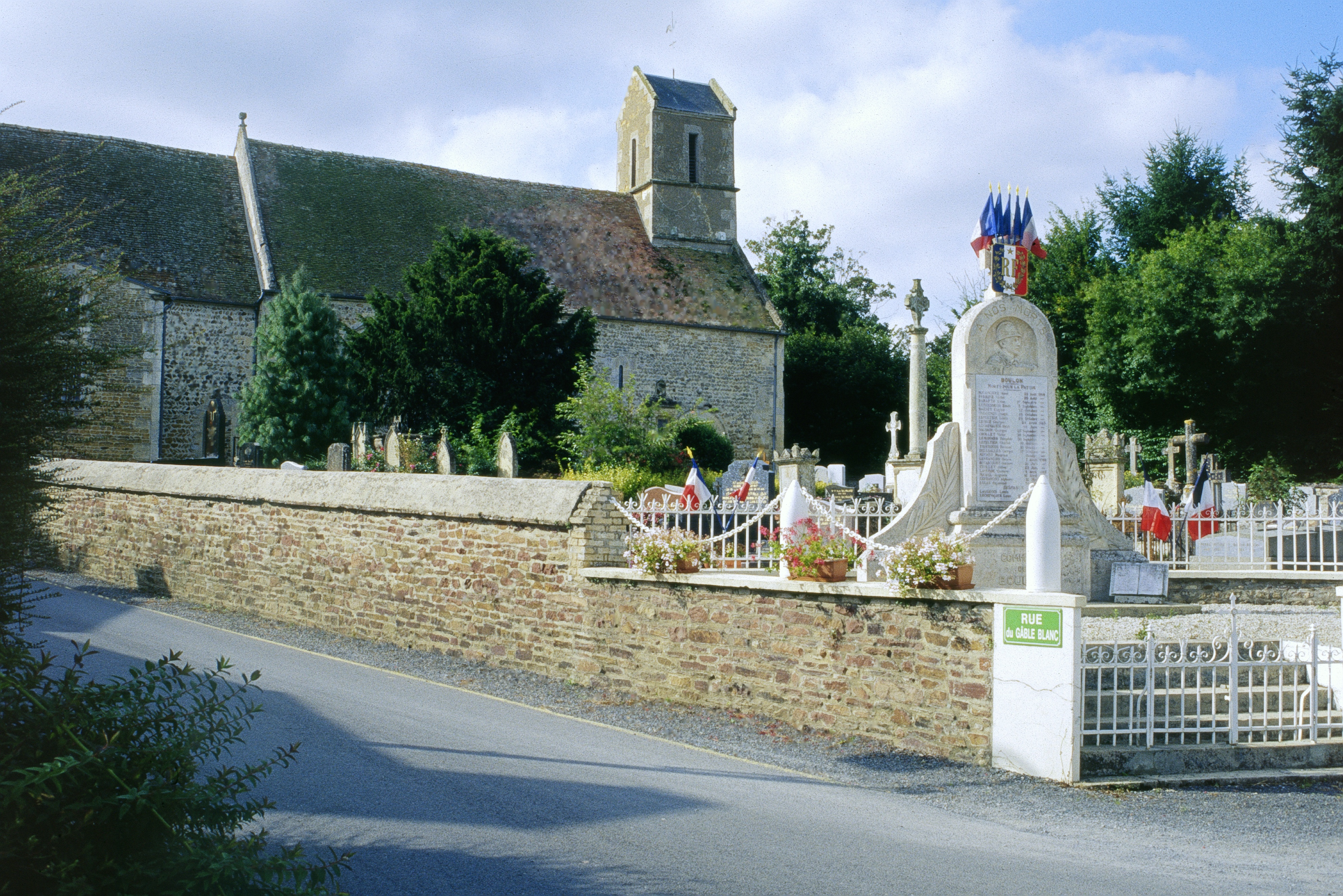 War memorial 1914/1918 and 1939/1945, cemetery and Church from BOULON, village in Calvados, in France.